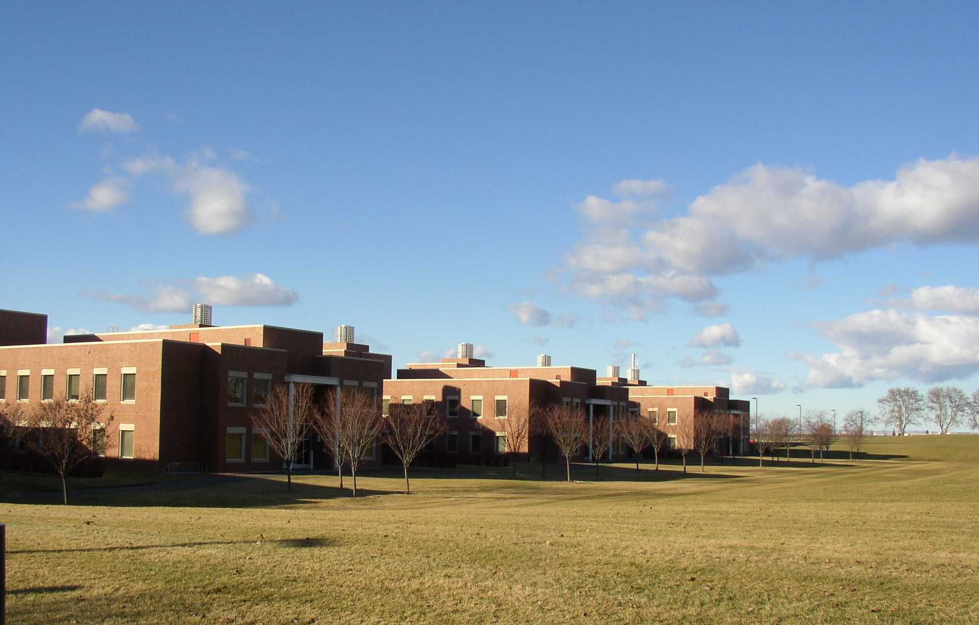 Photos of Richland, Washington taken on a 50°F Sunday, January 15, 2006 for the specific purpose of being uploaded to the Wikipedia. This photo shows the William R. Wiley Environmental Molecular Sciences Laboratory (EMSL), a U.S. Department of Energy national scientific user facility at the Pacific Northwest National Laboratory. EMSL provides integrated experimental and computational resources for discovery and technological innovation in the environmental molecular sciences. All rights are released; they are henceforth & forever in the public domain.